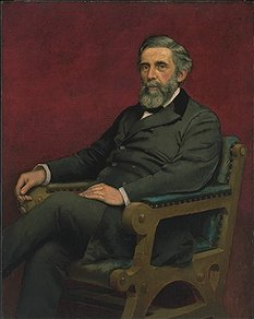 Official Treasury portrait of George S. Boutwell.